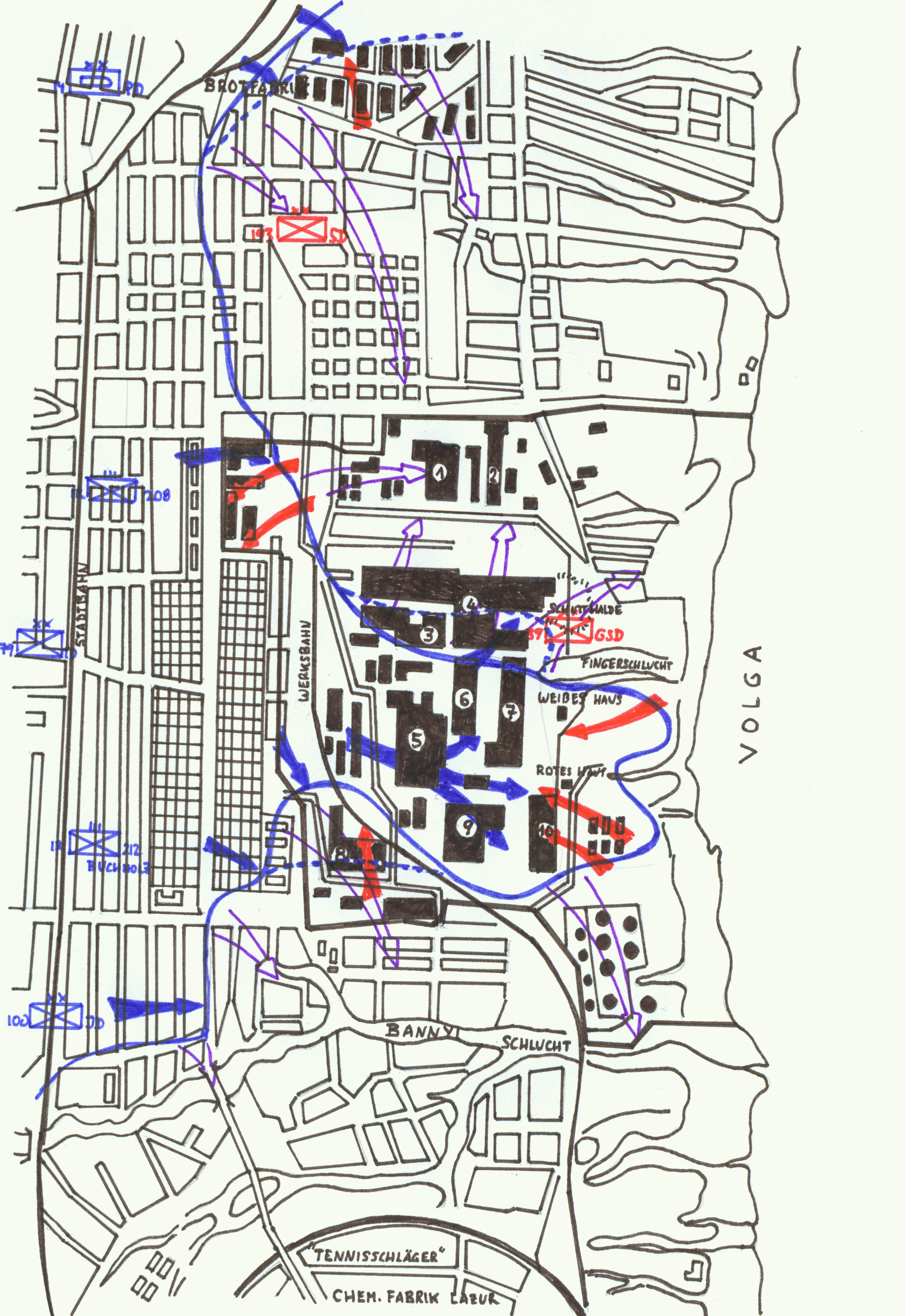 German Advance at Steel Plant Red October from 23rd to 24th of Oct. 1942